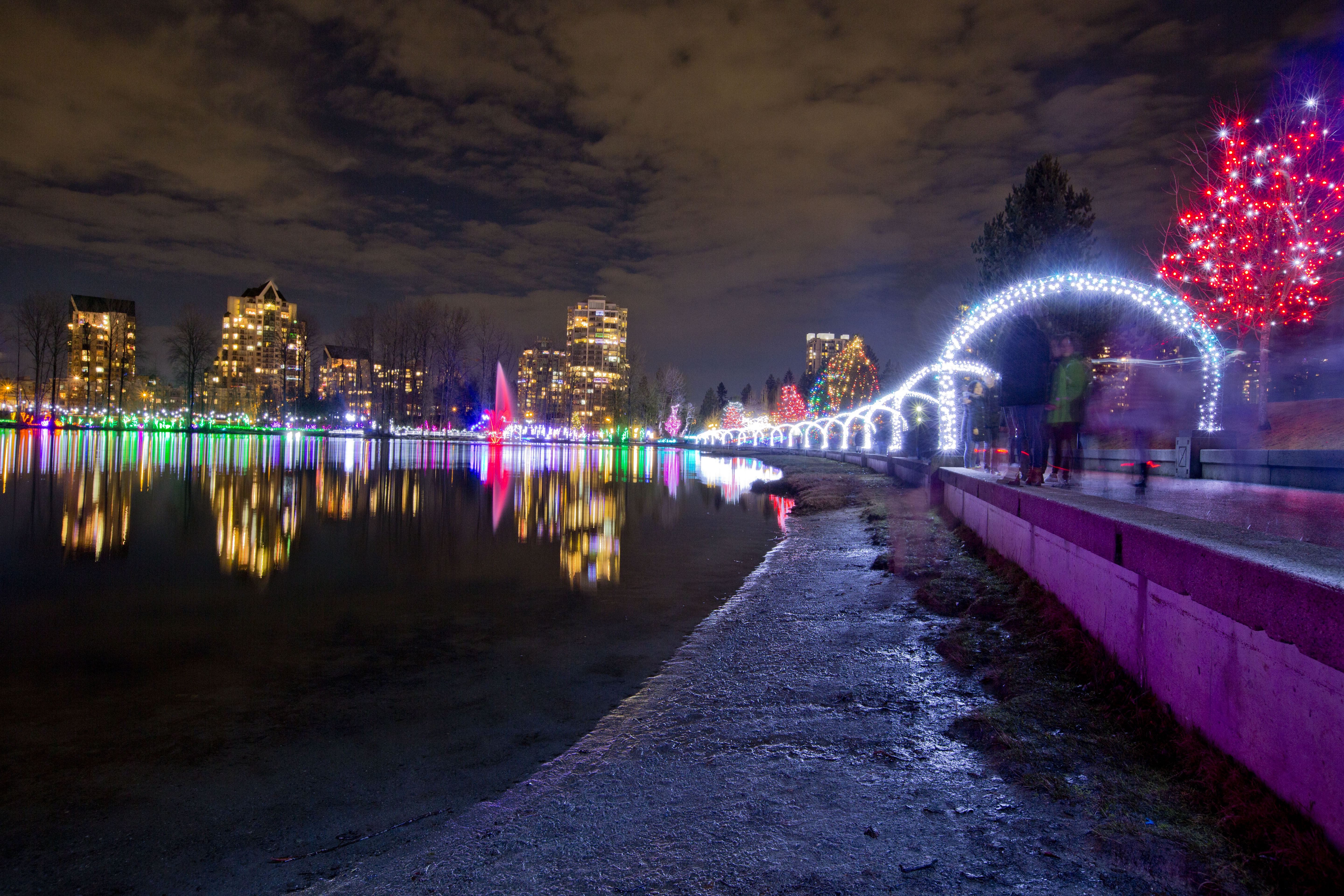 Reflections of holiday lights and the city skyline of Coquitlam, BC, Canada are visible in this photo from late 2018.